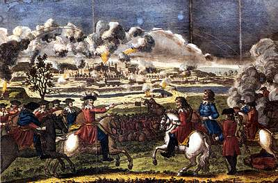 Cromwell's Forces commence their bombardment of Drogheda